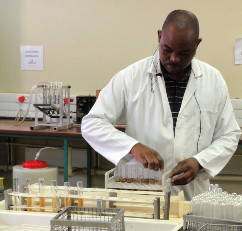 Soil fertility analysis. Preparing extracted solutions for analysis by atomic absorption spectrophotometry.